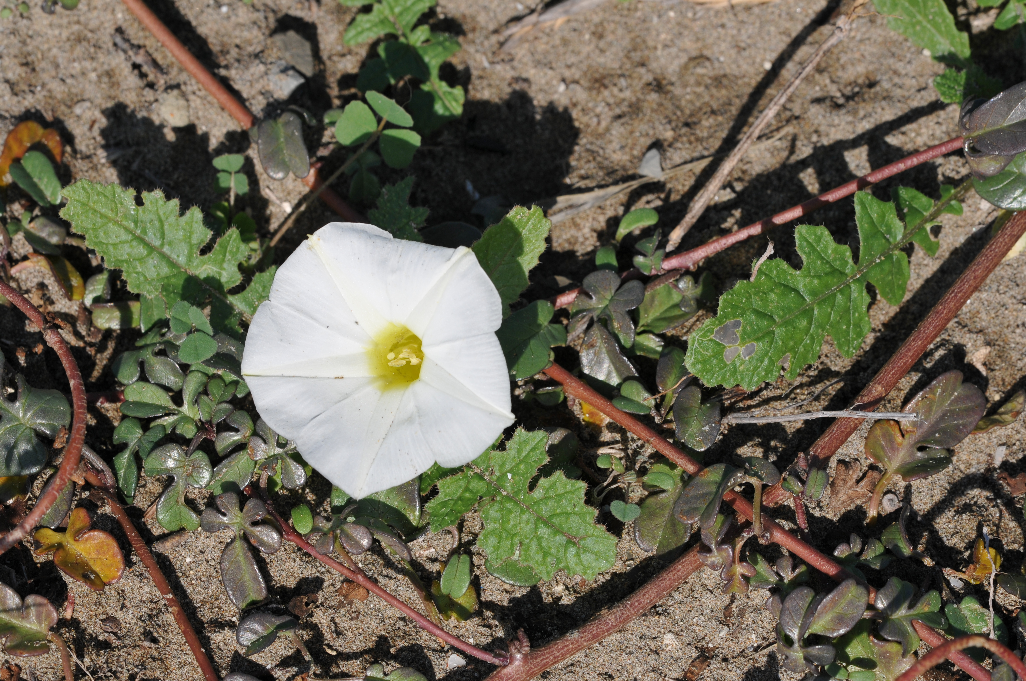 A flower of Beach Morning-glory / Fiddle-leaf Morning Glory (Ipomoea imperati). Karataş, Adana - Turkey.